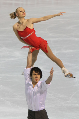 Maria Mukhortova and Maxim Trankov at the 2010 European Figure Skating Championships.